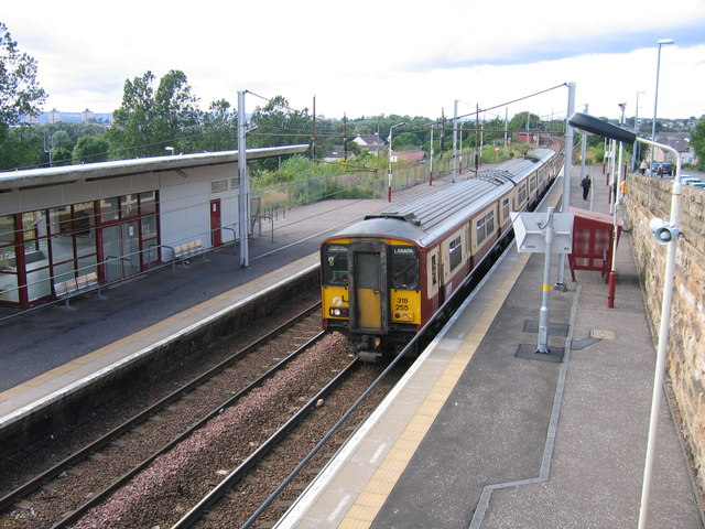 Wishaw railway station Original description: Wishaw railway station Class 318 electric unit No 318255, bound for Lanark, calls at Wishaw station (formerly Wishaw Central) to set down a few passengers.